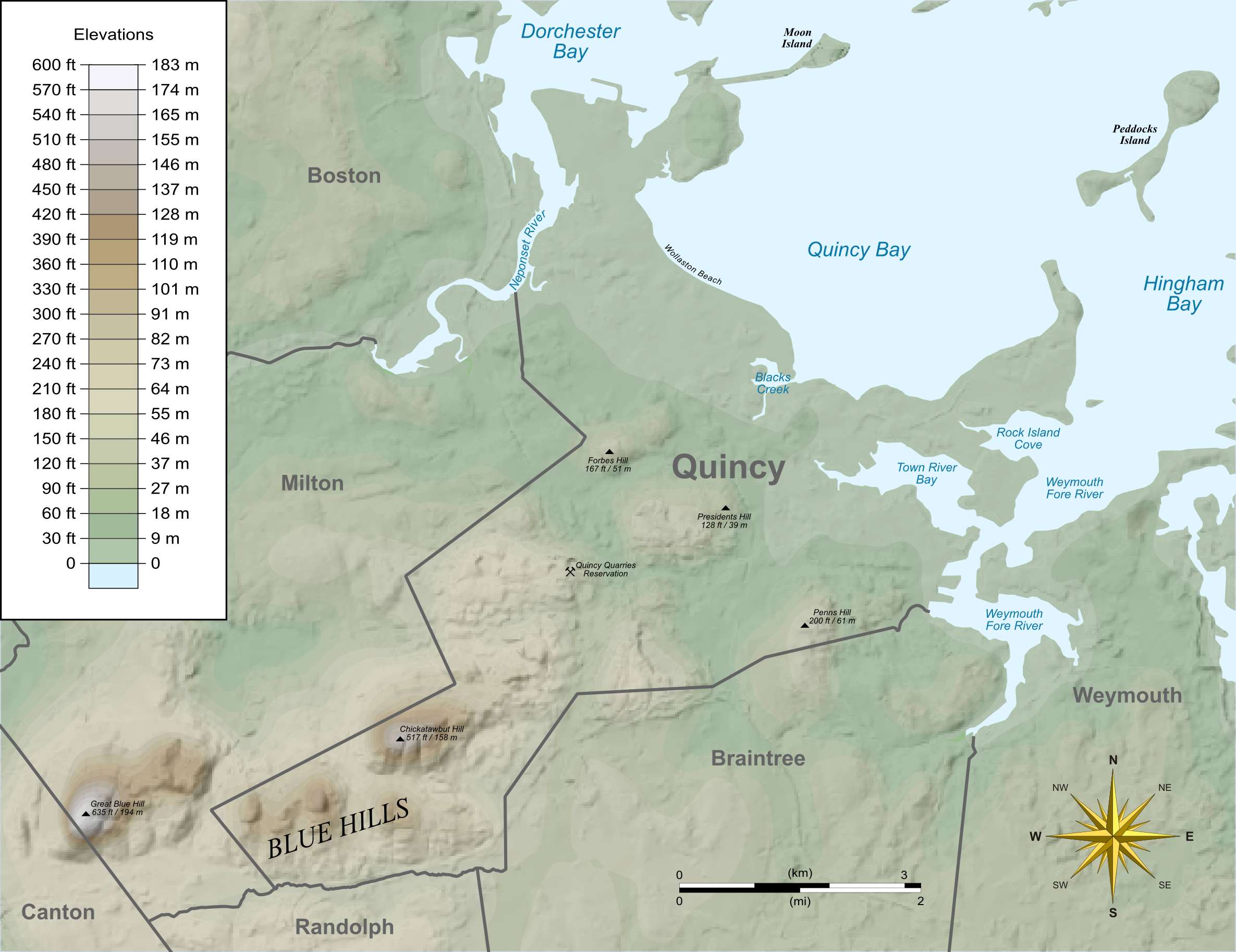 Relief map of Quincy, Massachusetts showing features and elevations.